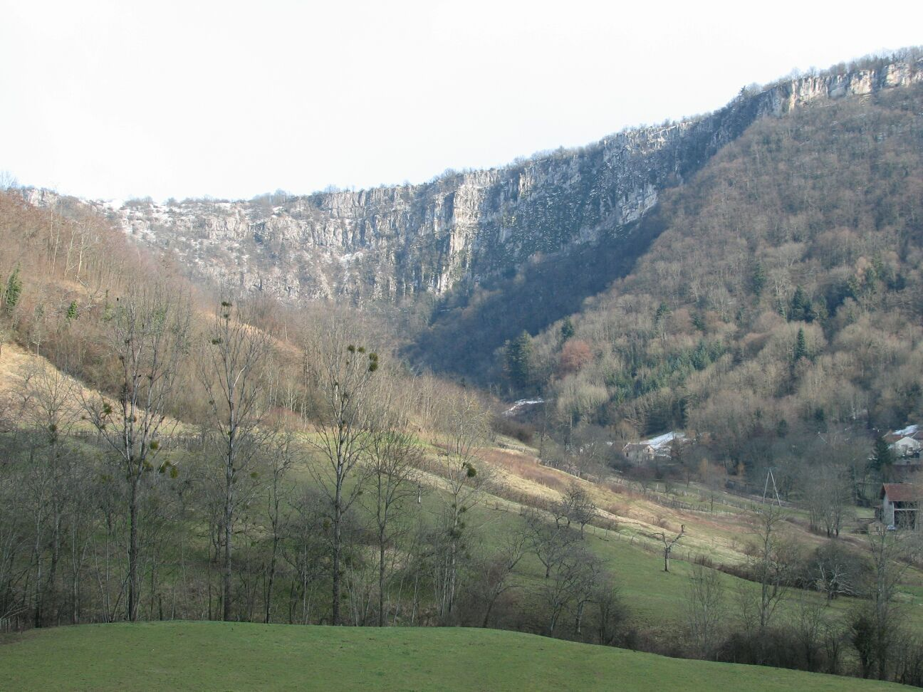 Overview of the gizia valley